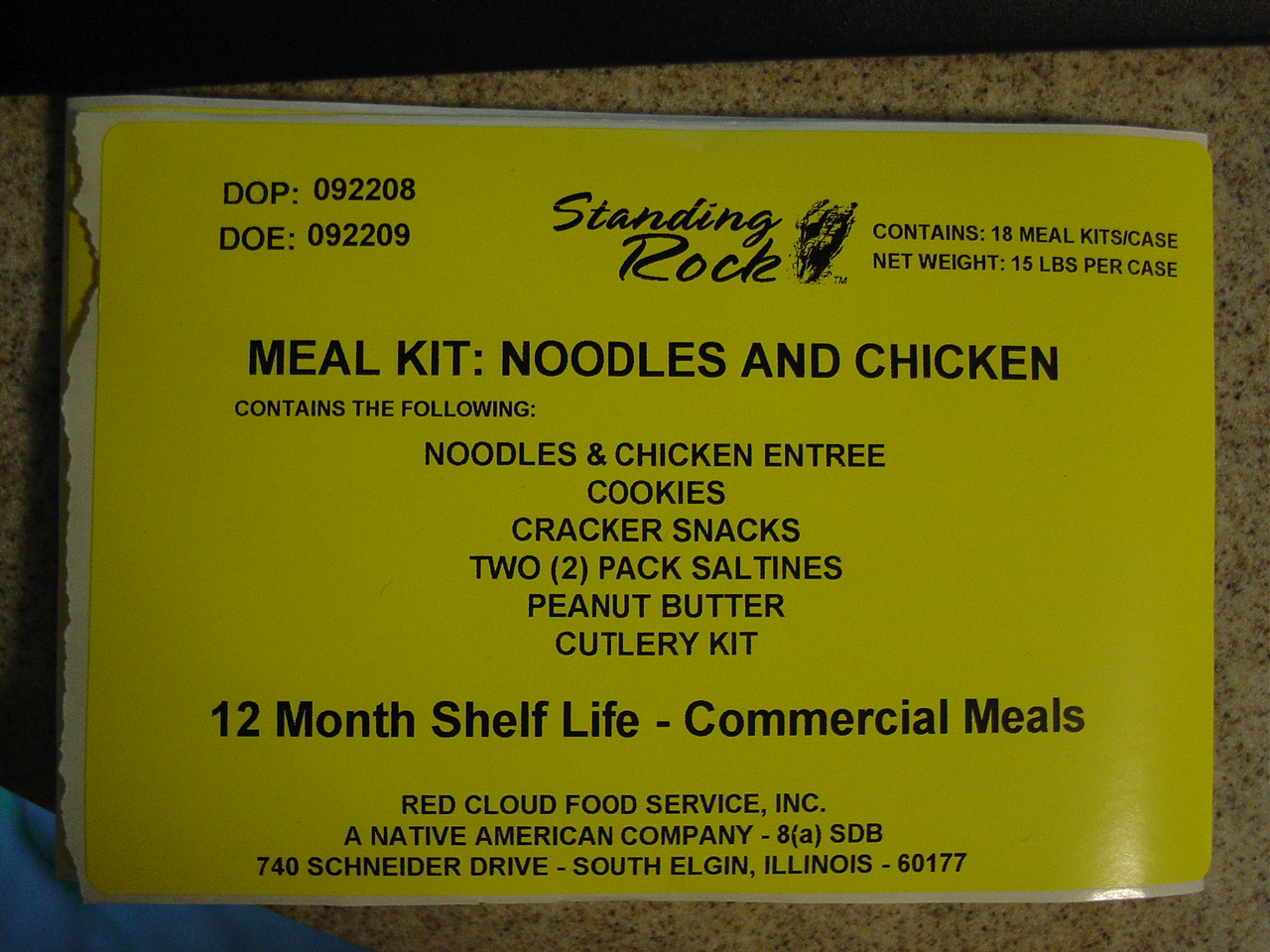 Washington, DC, February 4, 2009 -- Example of a Meal Ready to Eat, or MRE Kit that contains peanut butter packets. This was used in the following press release